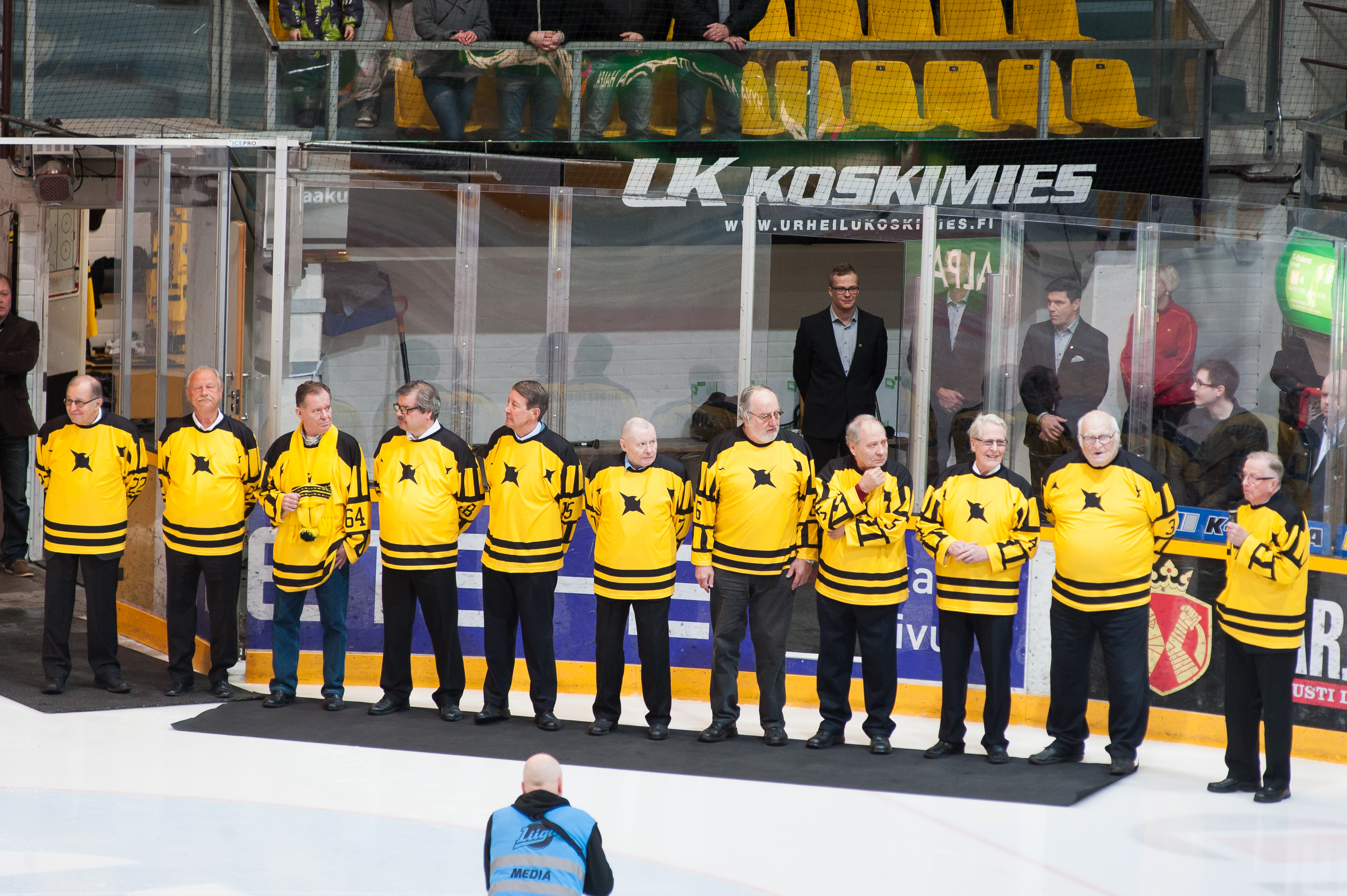 SaiPa's only men's medalists, the 1965-1966 team, celebrating the 50th anniversary of their bronze medal on the 1st of March 2016 at the Kisapuisto hockey arena in Lappeenranta, Finland. From left to right: Pentti Hyväri, Harri Laakso, Pekka Moisio, Heikki Juselius, Raimo Lohko, Kari Ruontimo, Hannu Lemander, Leo Haakana, captain Lalli Partinen and player-coach Yrjö Hakala.